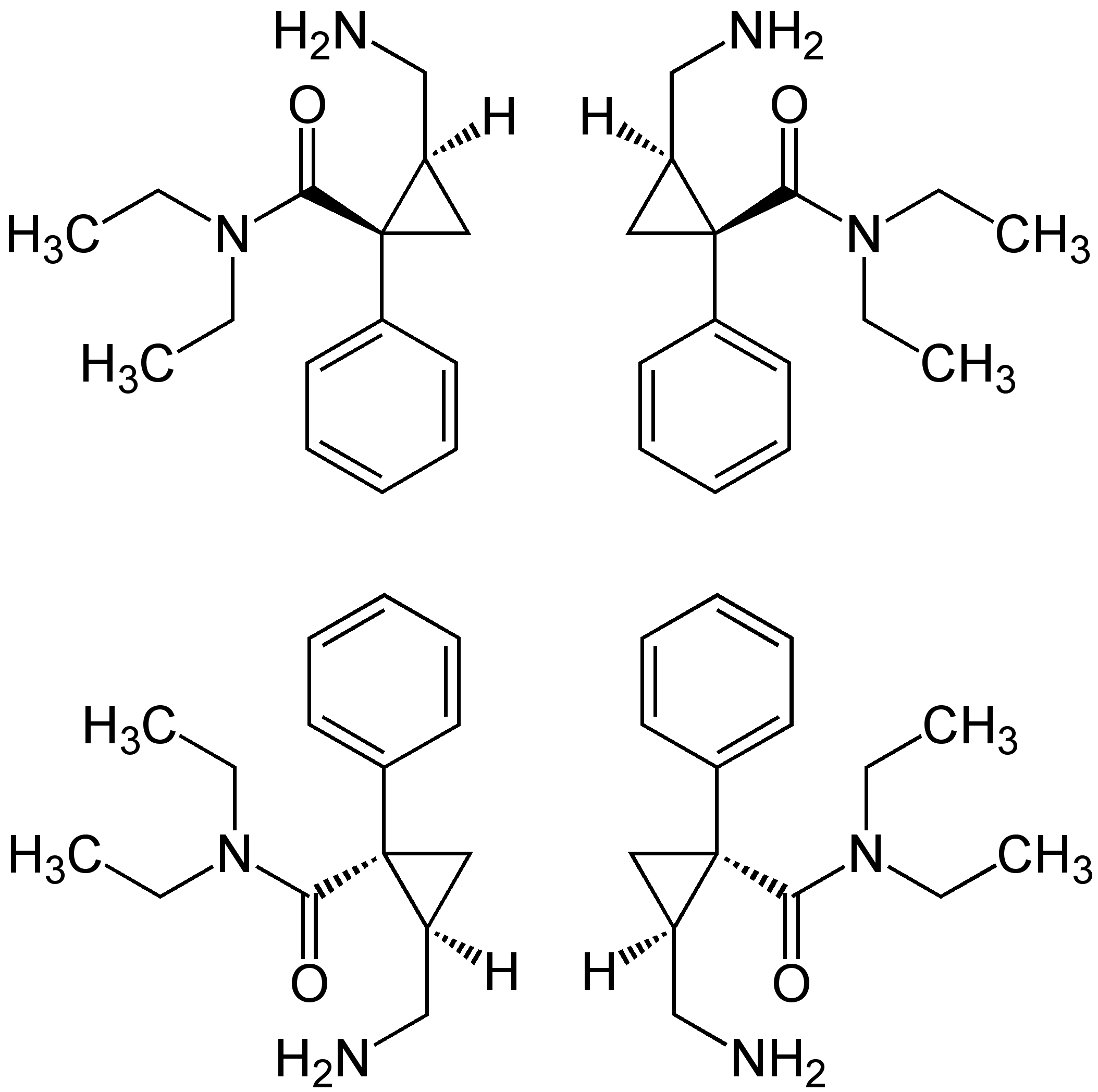 Milnacipran_Four_Stereoisomers_Structural_Formulae